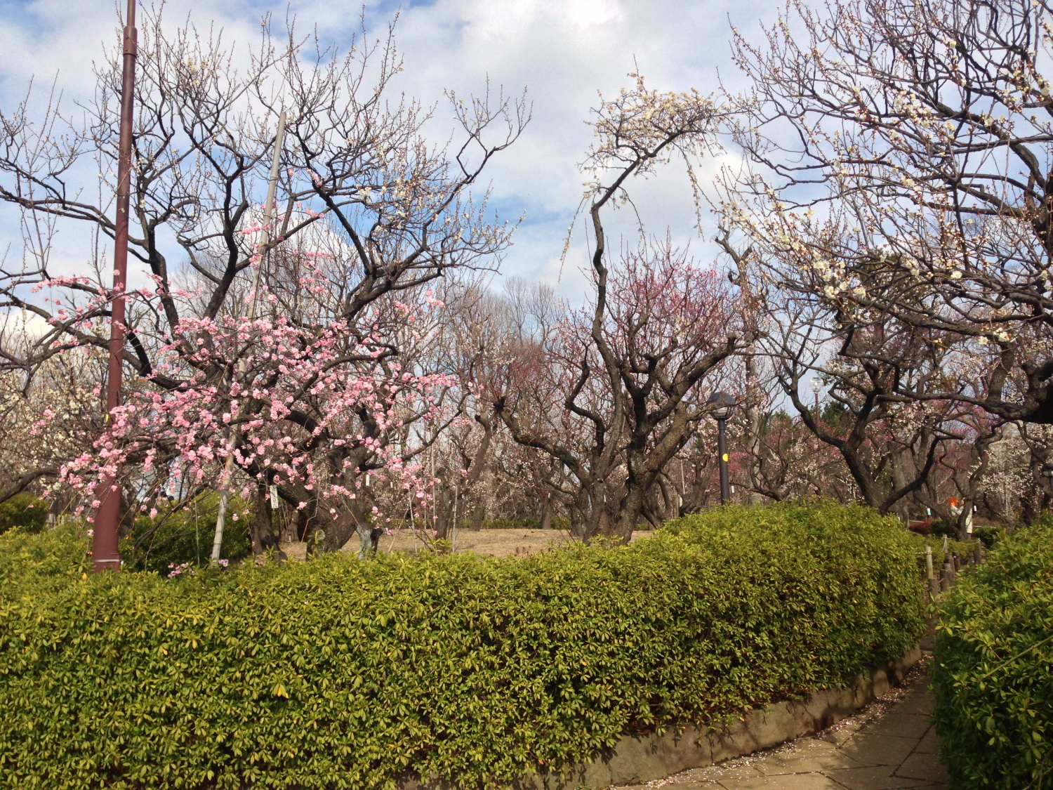 Plum trees at the Hanegi Park n Setagaya Ward, Tokyo, Japan